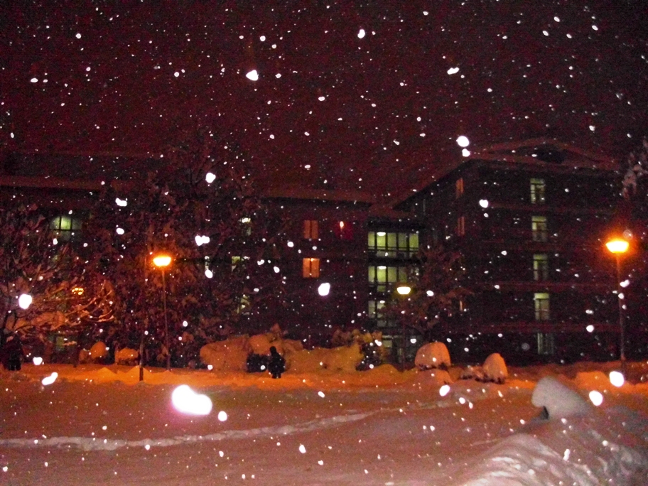 Student's dorm Stjepan Radić at winter night, January 2013